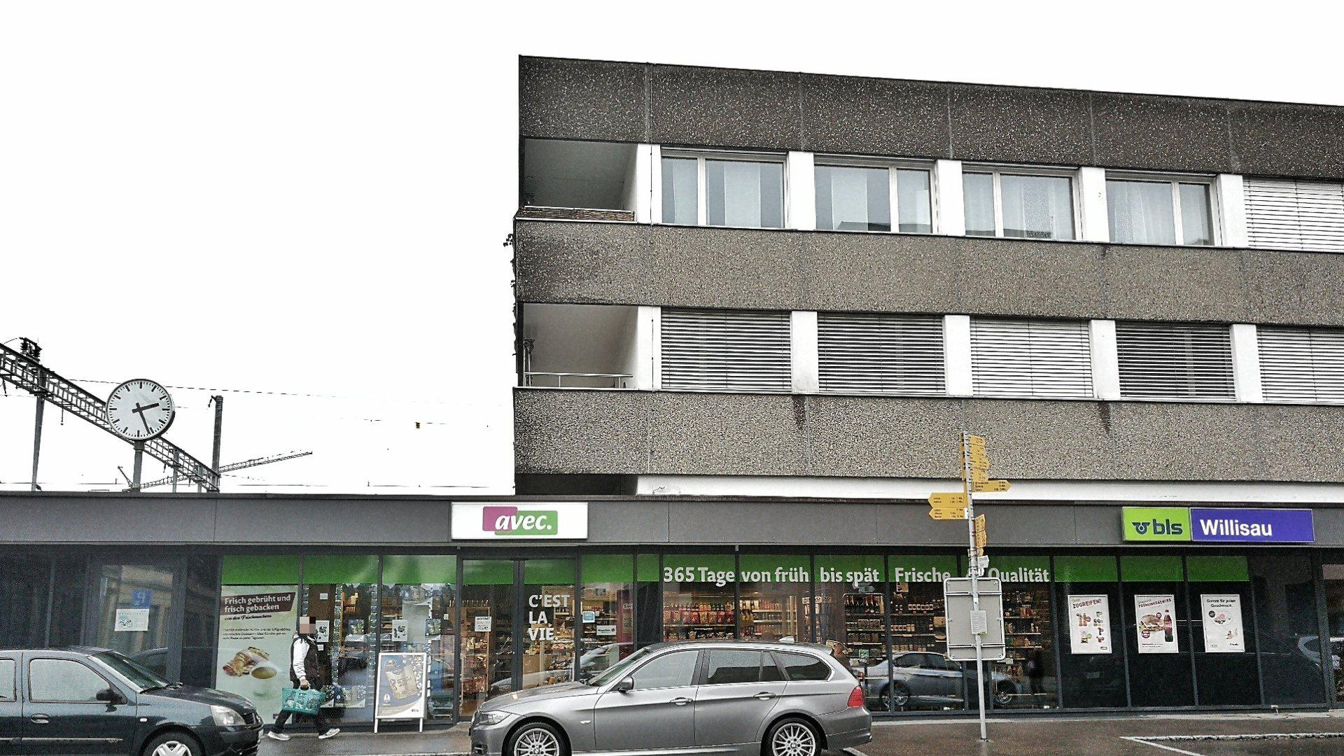 Willisau railway station in Willisau, Switzerland.